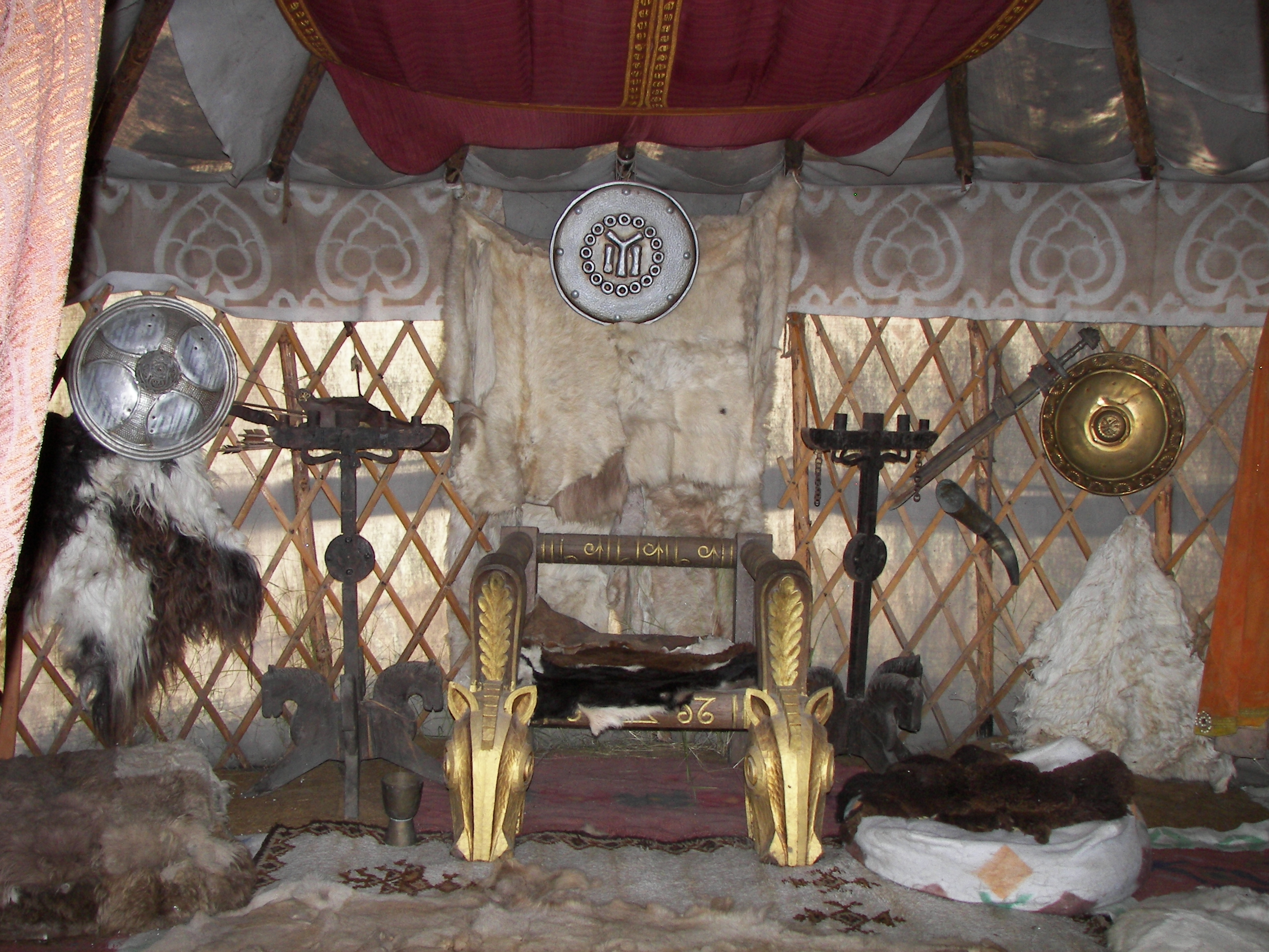 Phanagoria Ethnographic Complex near Varna, Bulgaria